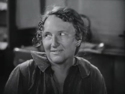 Marjorie Main in Barnacle Bill, by Richard Thorpe (1941)